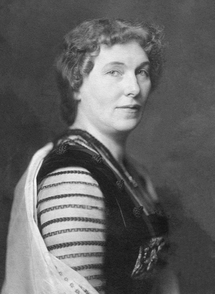 Photograph of Clara Viebig in Berlin by Nicola Perscheid